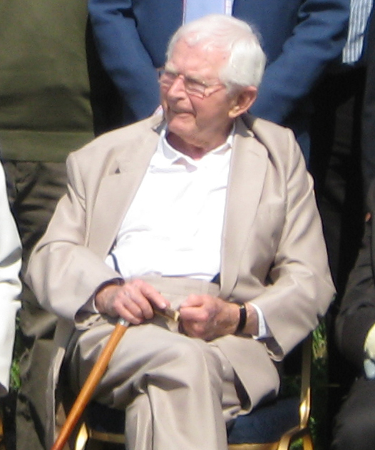 The English television writer and producer David Croft during a Dad's Army celebration at Bressingham Steam Museum in Norfolk, May 2011.